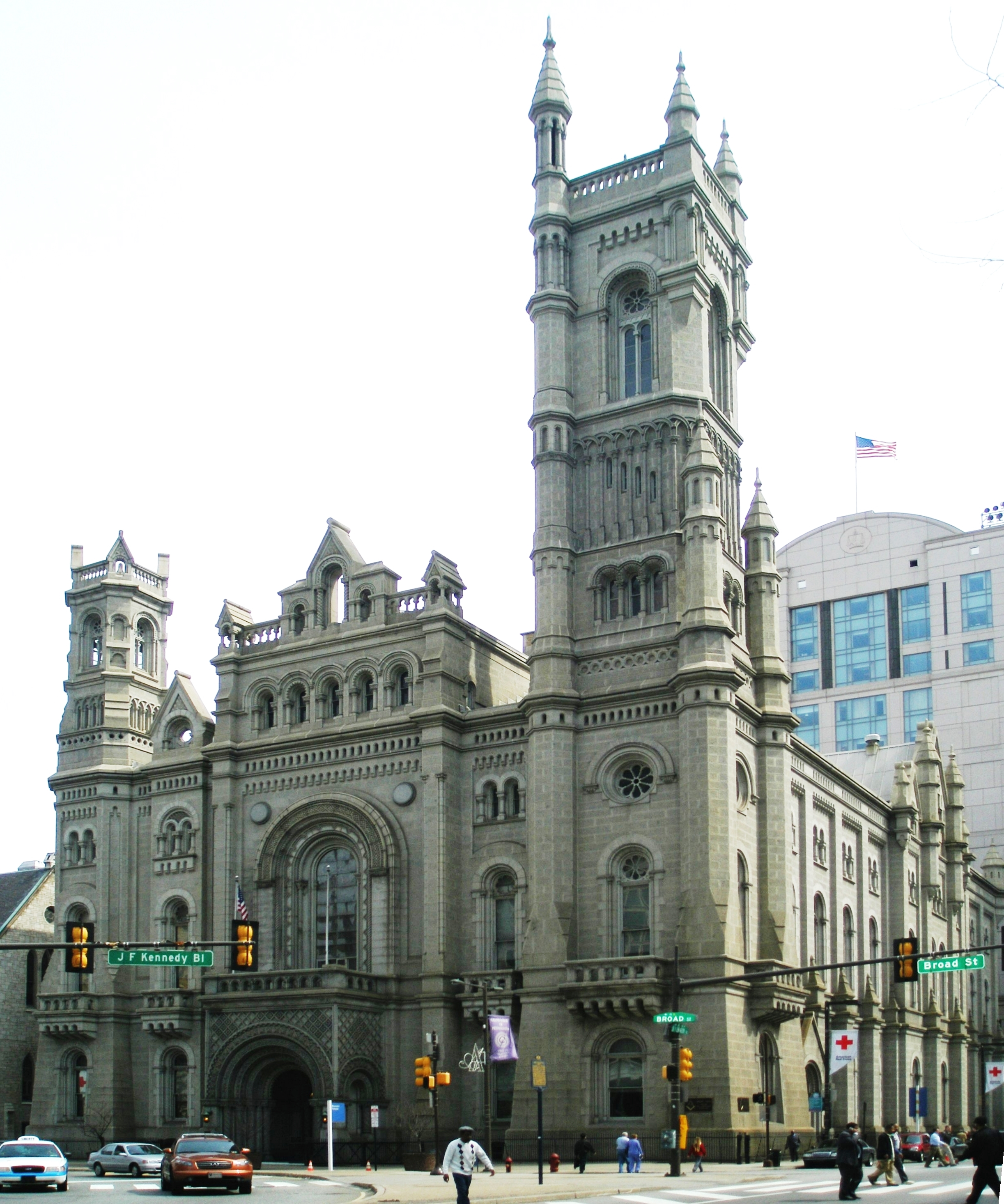 Grand Lodge of Pennsylvania, across from Philadelphia City Hall